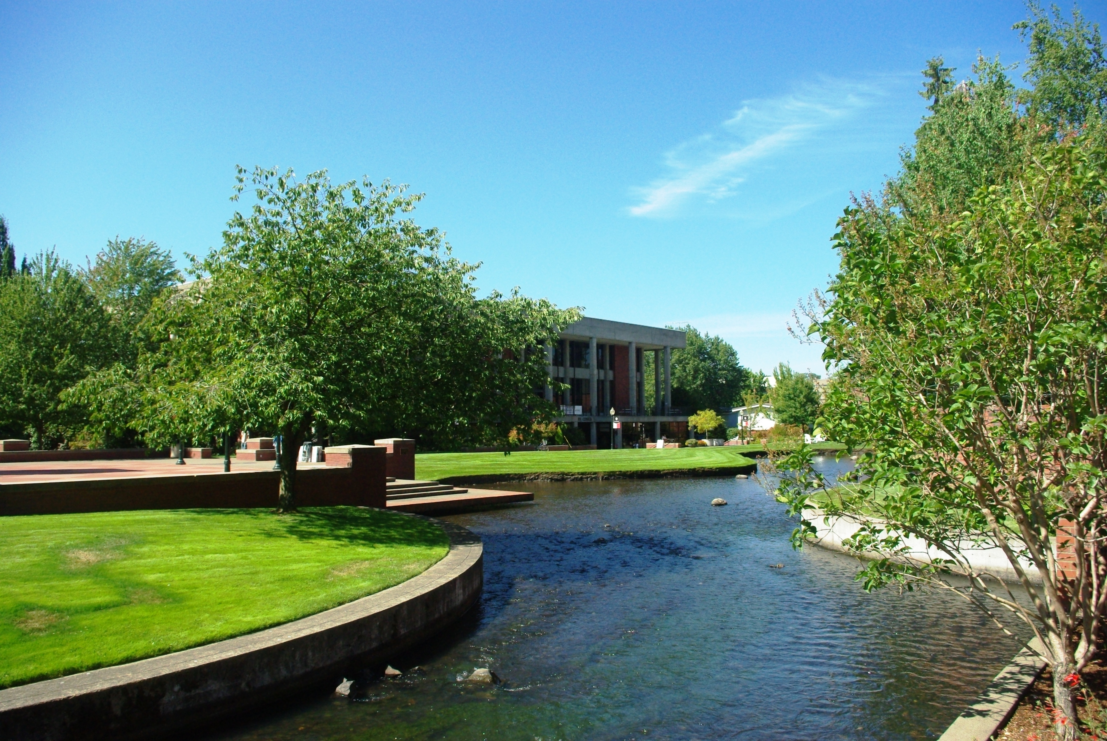 Buildings on the campus of Willamette University in Salem, Oregon, USA.